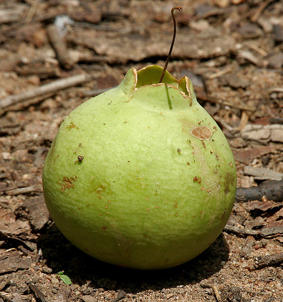 Diospyros chloroxylon - Slow Match Tree, Wild Guava, Ceylon Oak, Patana Oak • Hindi: कुम्भी Kumbhi • Marathi: कुम्भा Kumbha • Tamil: Aima, Karekku, Puta-tanni-maram • Malayalam: Alam, Paer, Peelam, Pela • Telugu: araya, budatadadimma, budatanevadi, buddaburija • Kannada: alagavvele, daddal • Bengali: Vakamba, Kumhi, Kumbhi • Oriya: Kumbh • Khasi: Ka Mahir, Soh Kundur • Assamese: Godhajam, কুম Kum, kumari, কুম্ভী kumbhi • Sanskrit: Bhadrendrani, गिरिकर्णिका Girikarnika, Kaidarya, कालिंदी Kalindi - in Narsapur, Medak district, Andhra Pradesh, India.